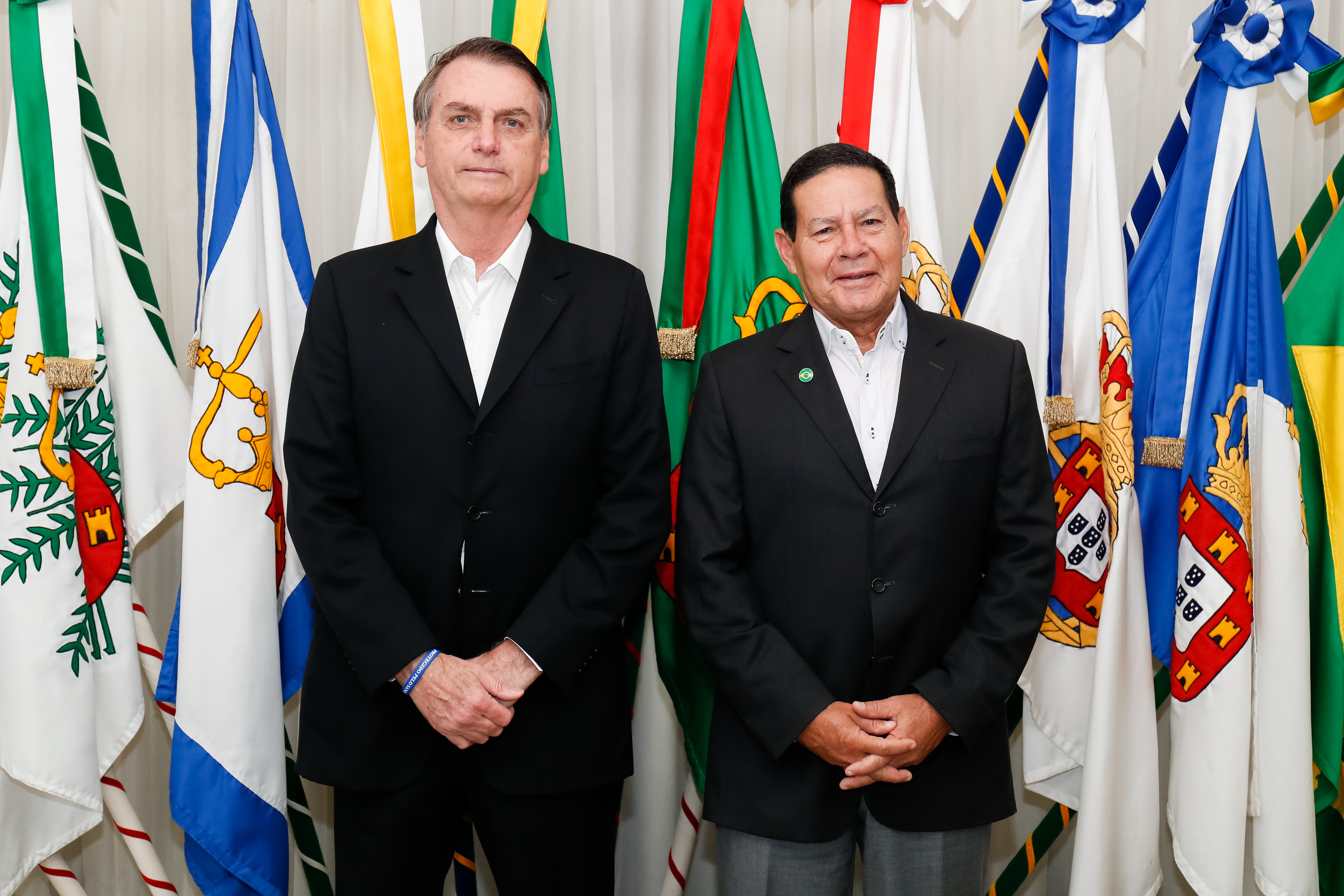 (Brasília - DF,17/03/2019) Presidente da República, Jair Bolsonaro durante a Transmissão de cargo para o Vice-Presidente da República, Hamilton Mourão. Foto: Alan Santos/PR